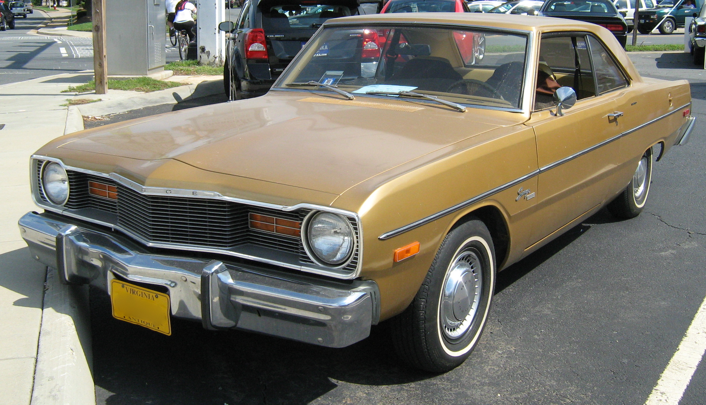 1976 Dodge Dart Swinger two-door hardtop. Note that the inside rear-view mirror is mounted on the windshield rather than from the ceiling as in the 1975s.